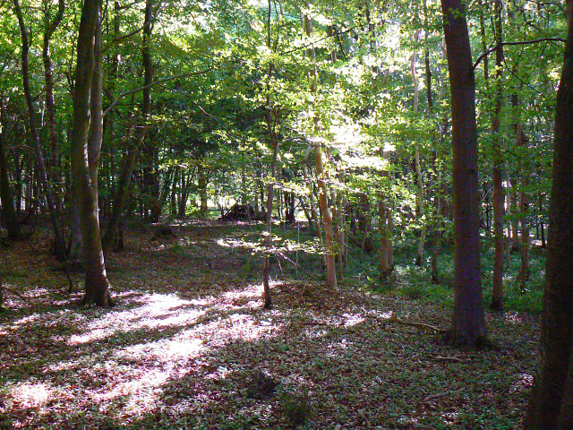 Savernake Forest near Grand Avenue This is the south-eastern extremity of the forest viewed from the southern end of Grand Avenue.